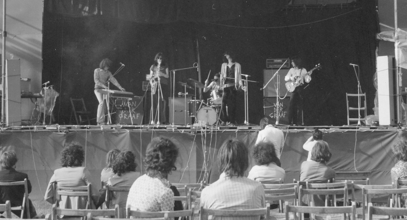 English Rock Group Van der Graaf Generator, 1972